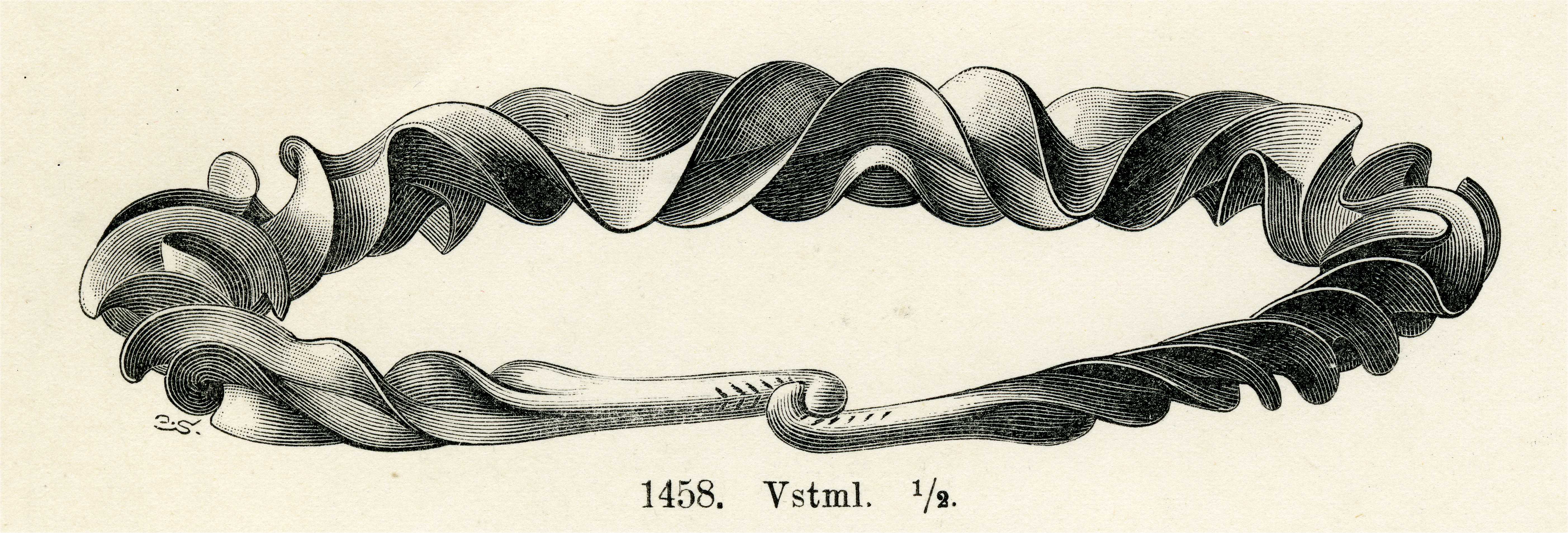 Bronze neck ring or torc from Badelundaåsen (i.e. "The Badelunda Esker"), Hubbo parish, Siende hundred, Västerås municipality, Västmanland, Sweden.